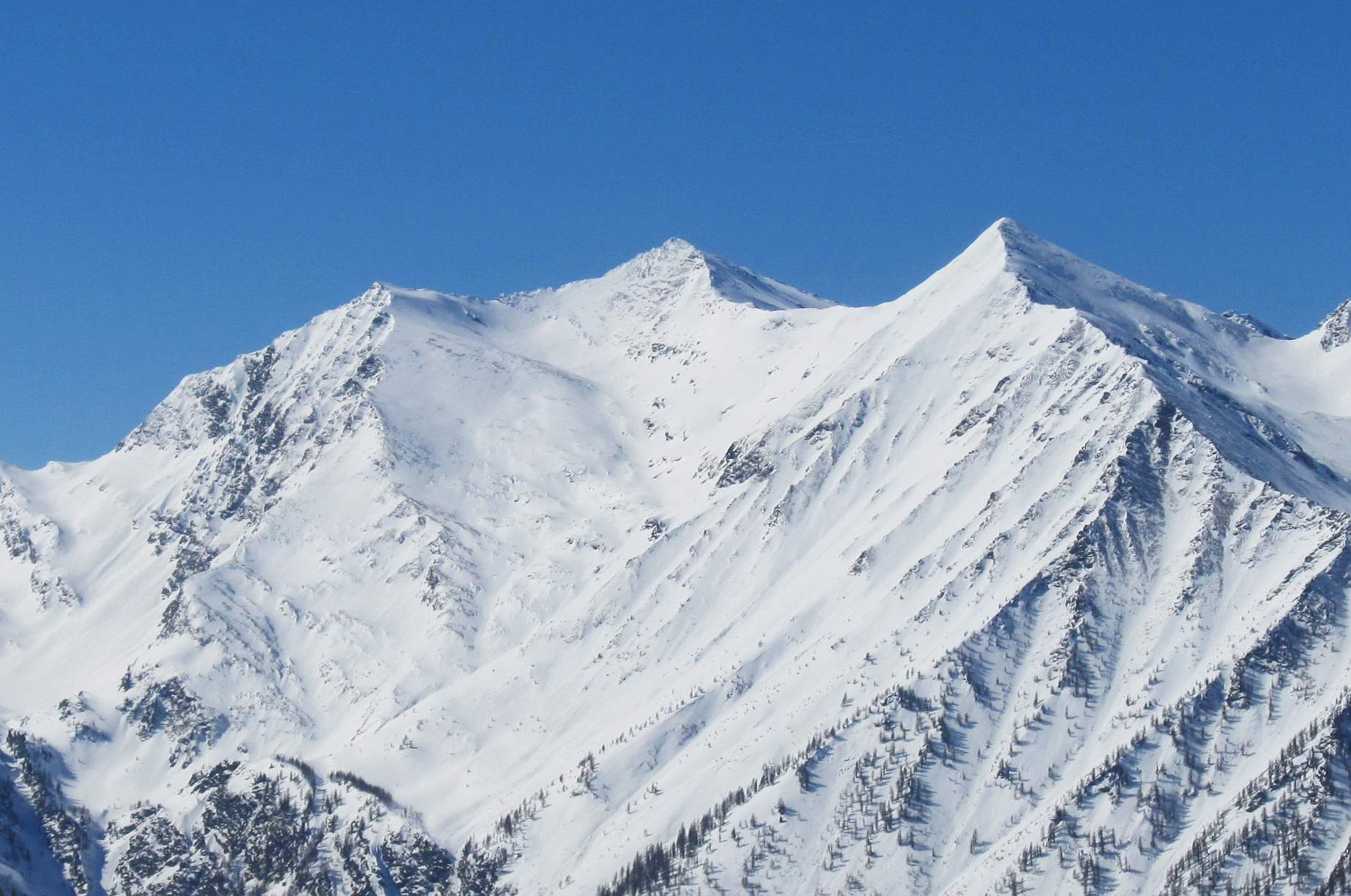 The Grand Queyron (Cottian Alps, French/Italian border) seen from Rocca Bianca; on its right cima Frappier, on the left Pointe Raisin